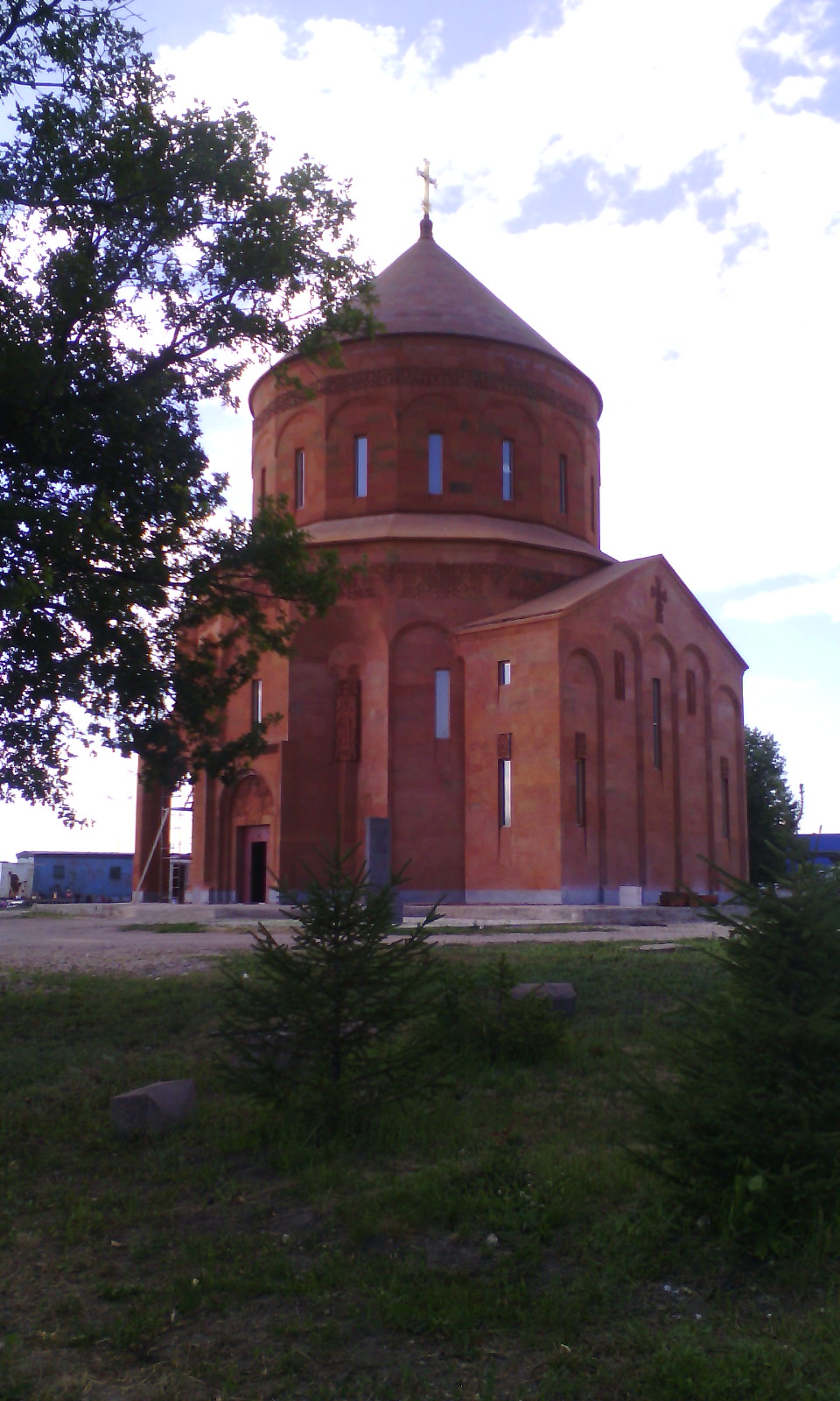 Built in 2007-2018 next to the airport, Saratov, Russia